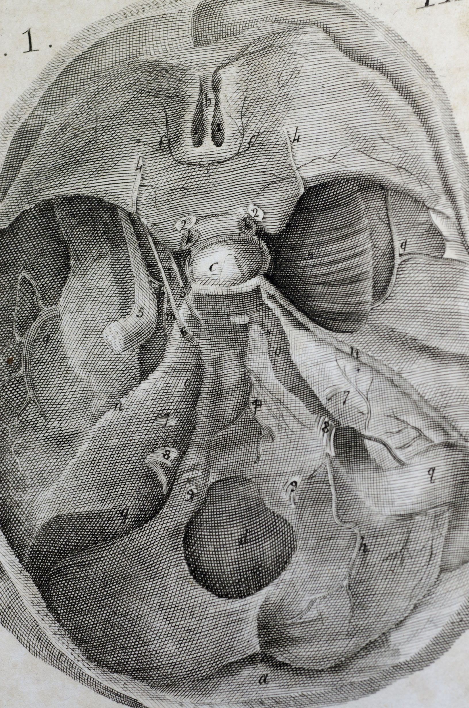 Detail from Plate 71 showing the base of the cranium from Andrew Fyfe, A System of the Anatomy of the Human Body, second edn, vol.2 (1806). Dedicated "to the gentleman attending medical classes at the University of Edinburgh". Andrew Fyfe (1752-1824) was a Scottish artist and anatomist, who held the post of disssector at the University of Edinburgh for 40 years. His textbooks, lavishly illustrated with copperplate engravings made from his own drawings (both copies from other works and from life), were designed for students, and appeared in many editions, successively enlarged and improved. Later editions included comparative anatomy, using the work of Cuvier. SPEC P8.24 from the Medical books collection, Special Collections & Archives, the University of Liverpool.Images from Special Collections & Archives, the University of Liverpool. Template:University of Liverpool Faculty of Health & Life Sciences